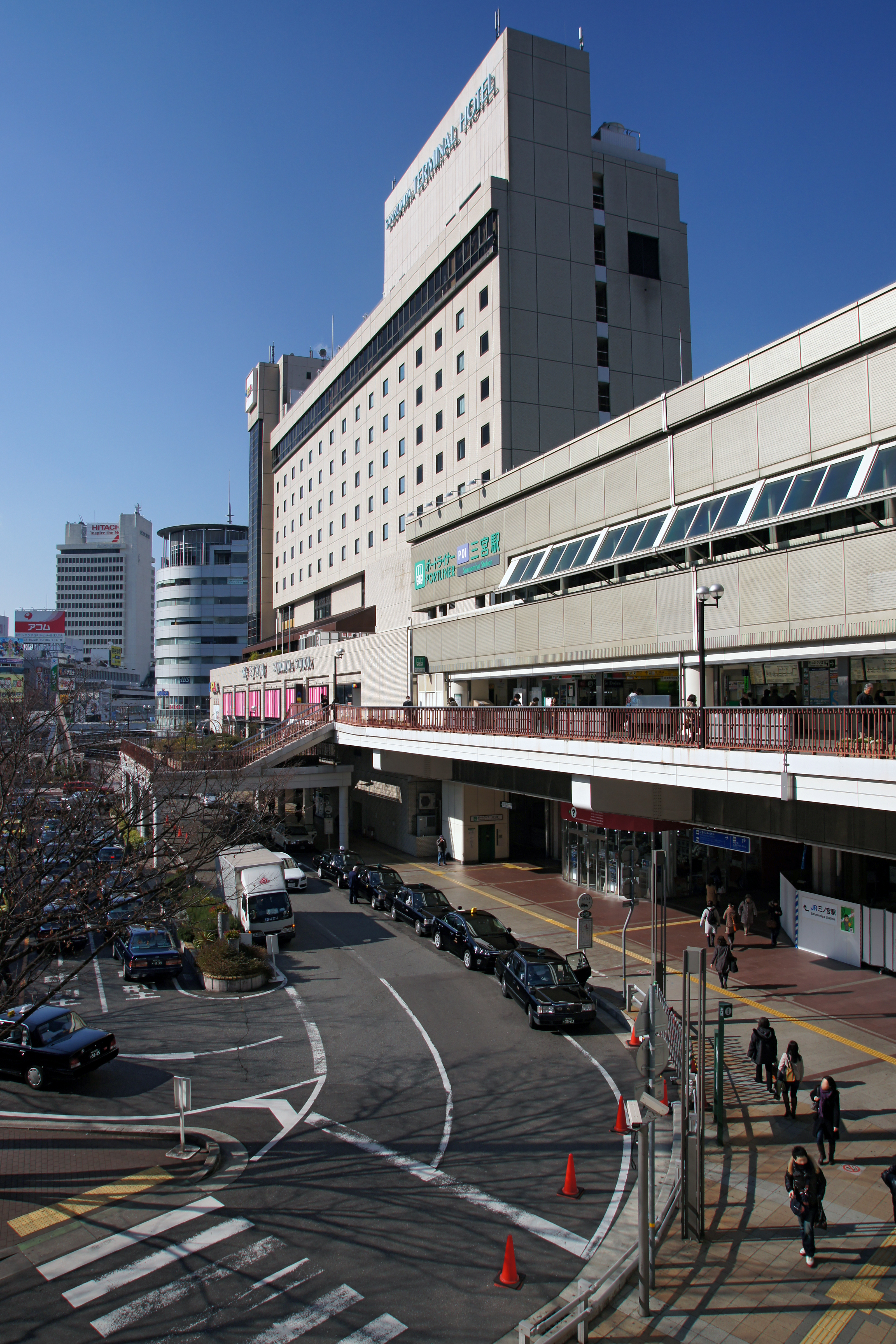 Sannomiya Station, Kobe, Hyogo prefecture, Japan